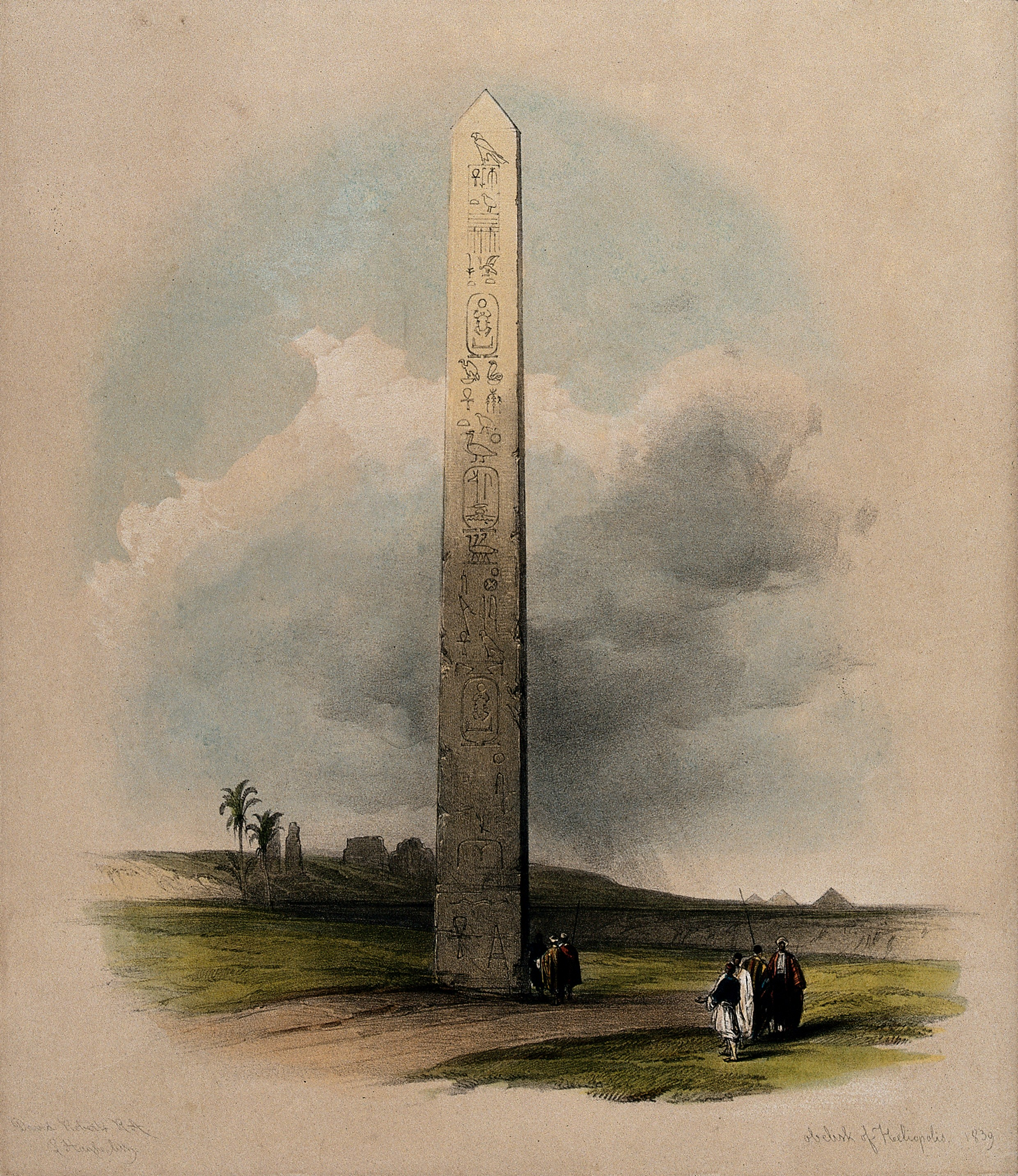 Obelisk at Heliopolis, known in the Bible as On, Egypt. Coloured lithograph by Louis Haghe after David Roberts, 1848. Iconographic Collections Keywords: David Roberts; Louis Haghe